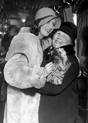 Greta Garbo together with her mother Anna Gustafsson during a trip to the Sweden in 1928.